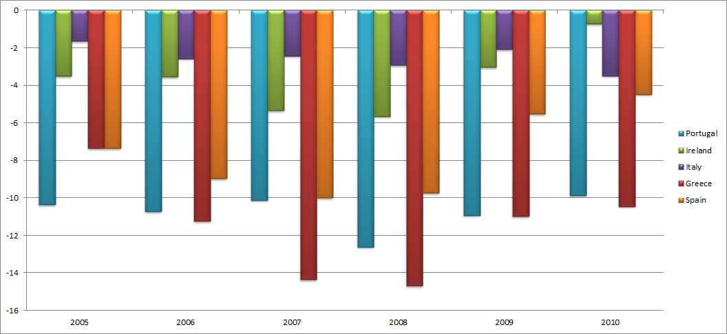 Current account deficit of PIIGS countries for the years 2005-10